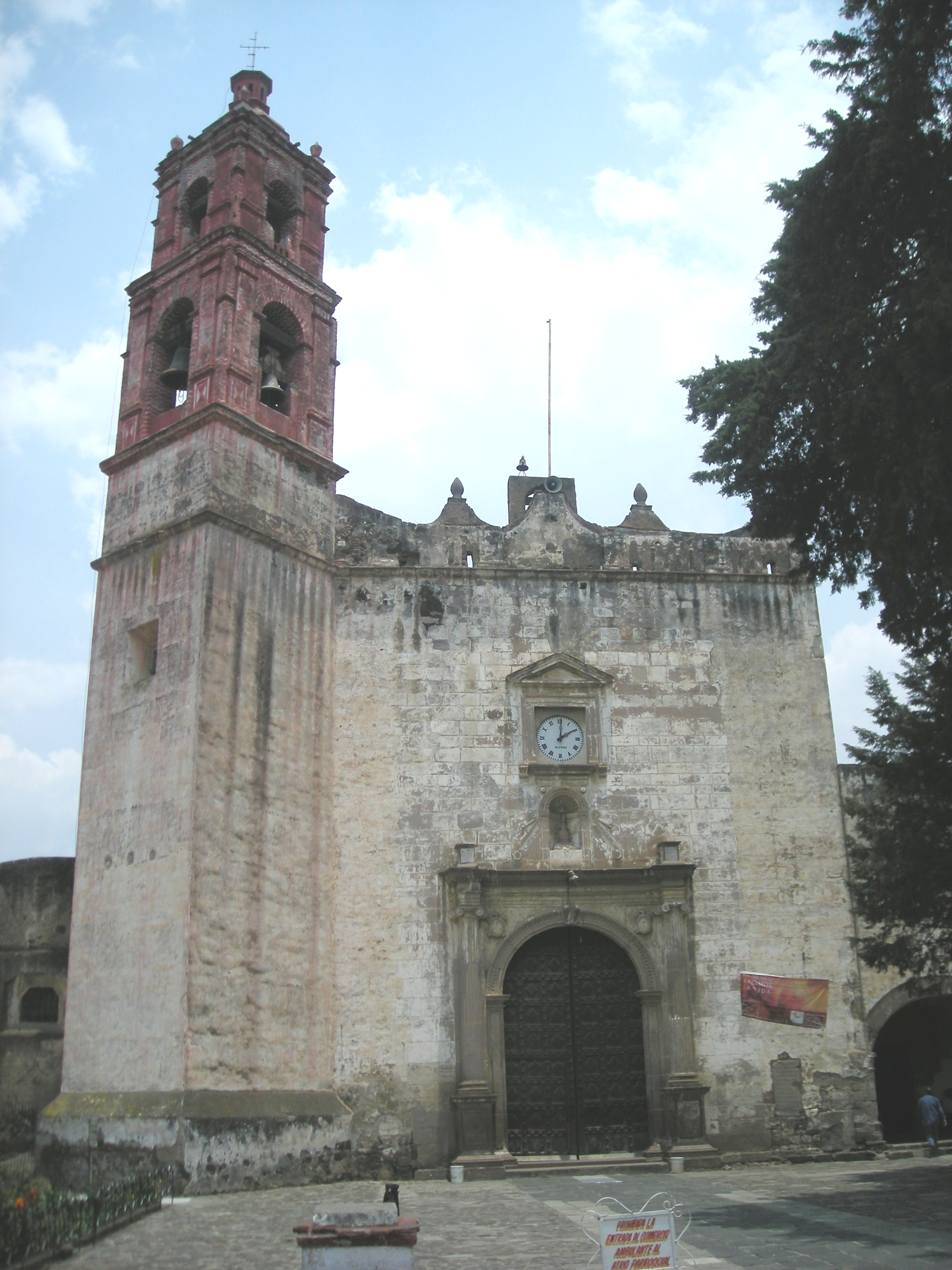 Facade of San Luis Obispo Church in Tlalmanalco, Mexico State, Mexico